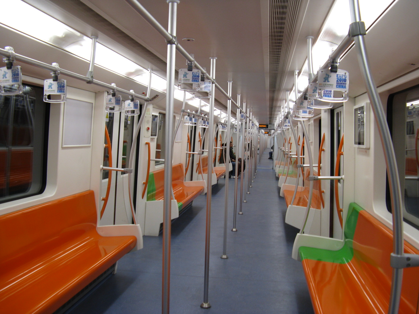 Train Line7 Shanghai Metro